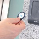 Example of fob based access control with an ACTpro 1040e